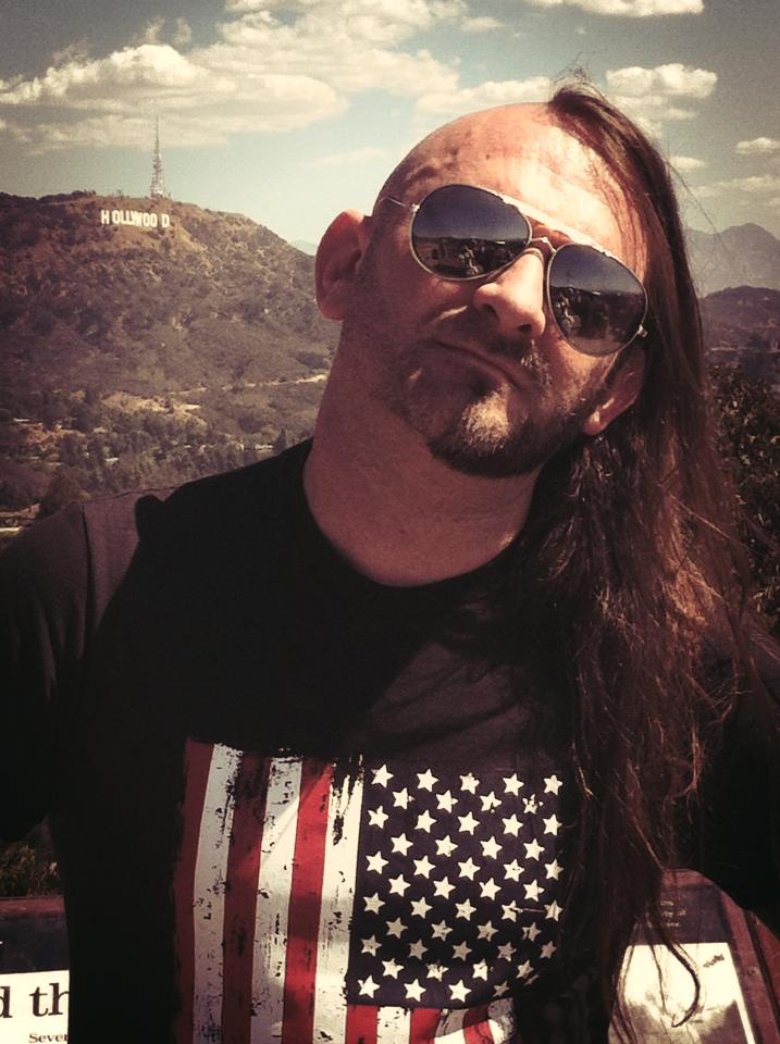 Nick J.Townsend in Hollywood, 2014